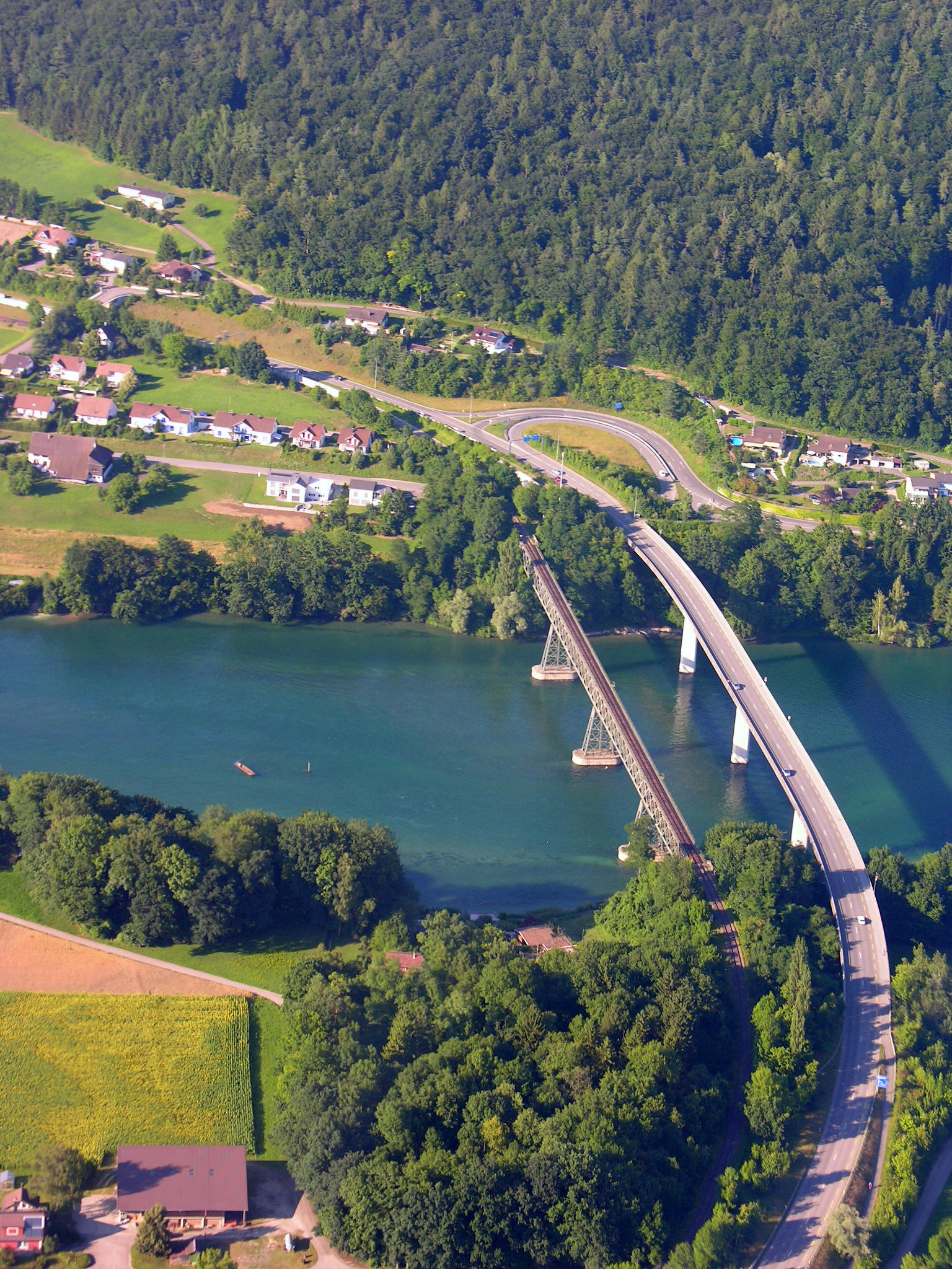 Aerial View of Hemishofen with the 2 Bridges across the Rhine